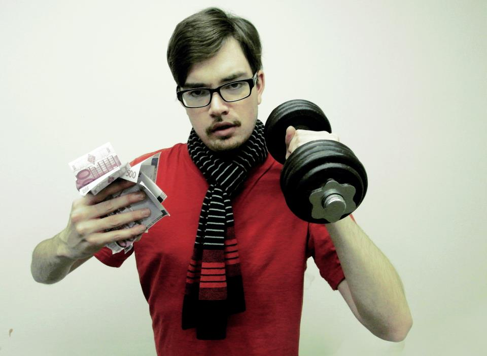 writer Jaroslav Žváček